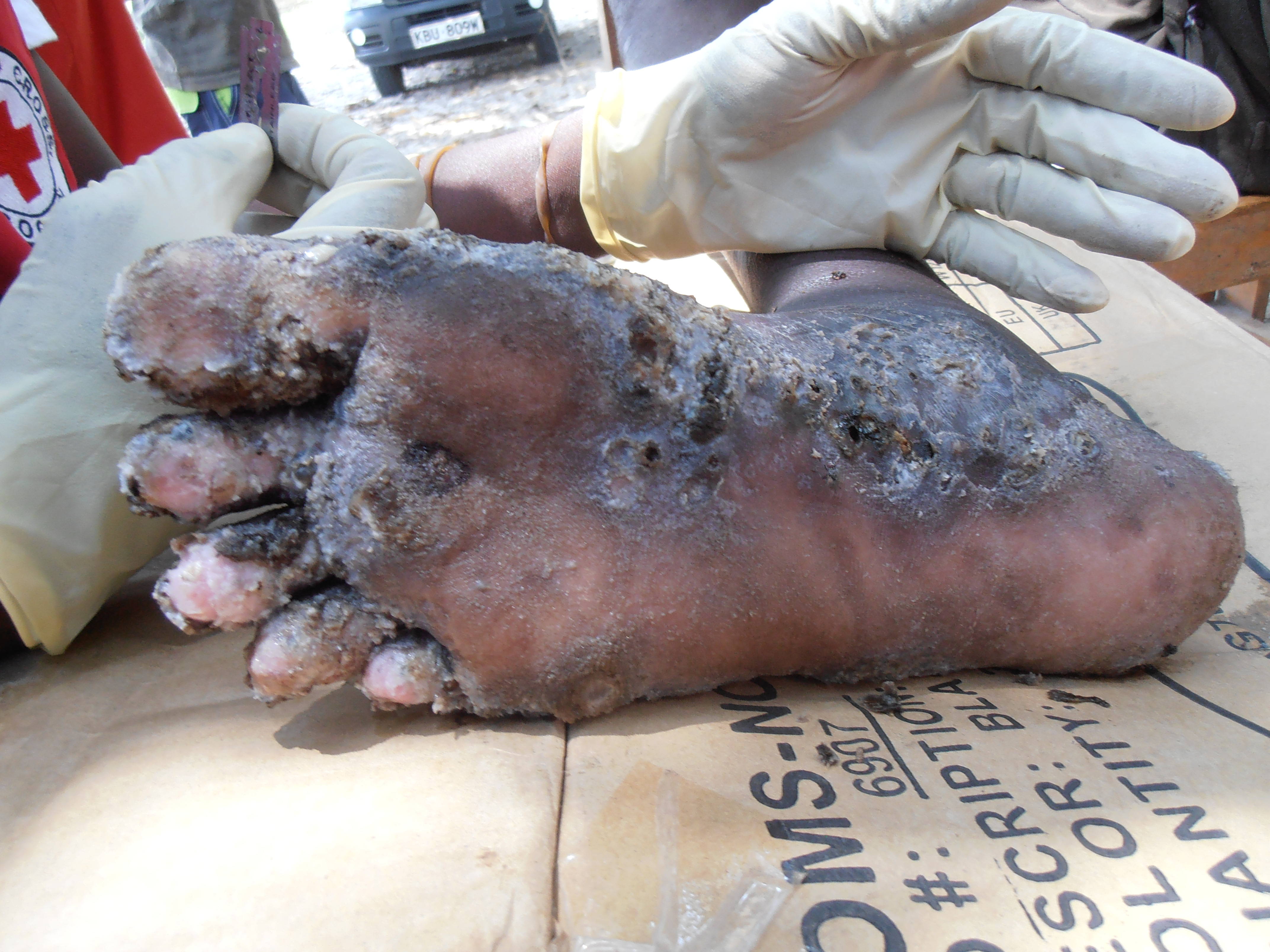 Jigger (Chigoe flea) infested foot - treatment at 'Coast Jigger Campaign 2013', Kenya